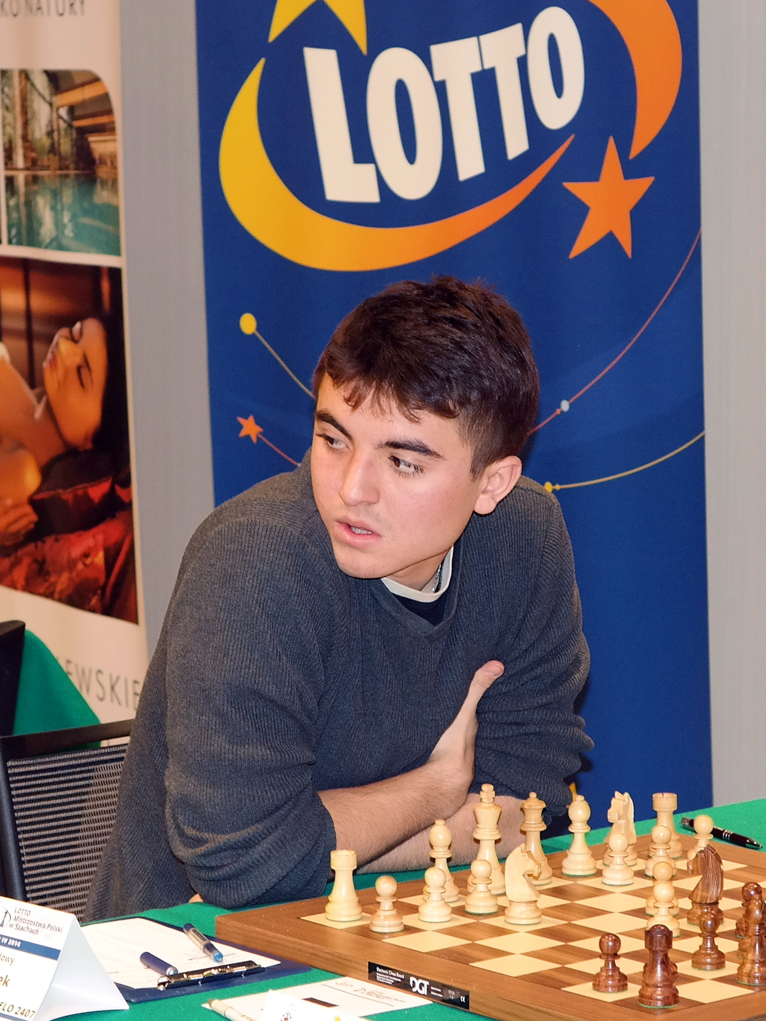 IM Oskar Wieczorek, Polish Chess Championship, Warsaw 2014